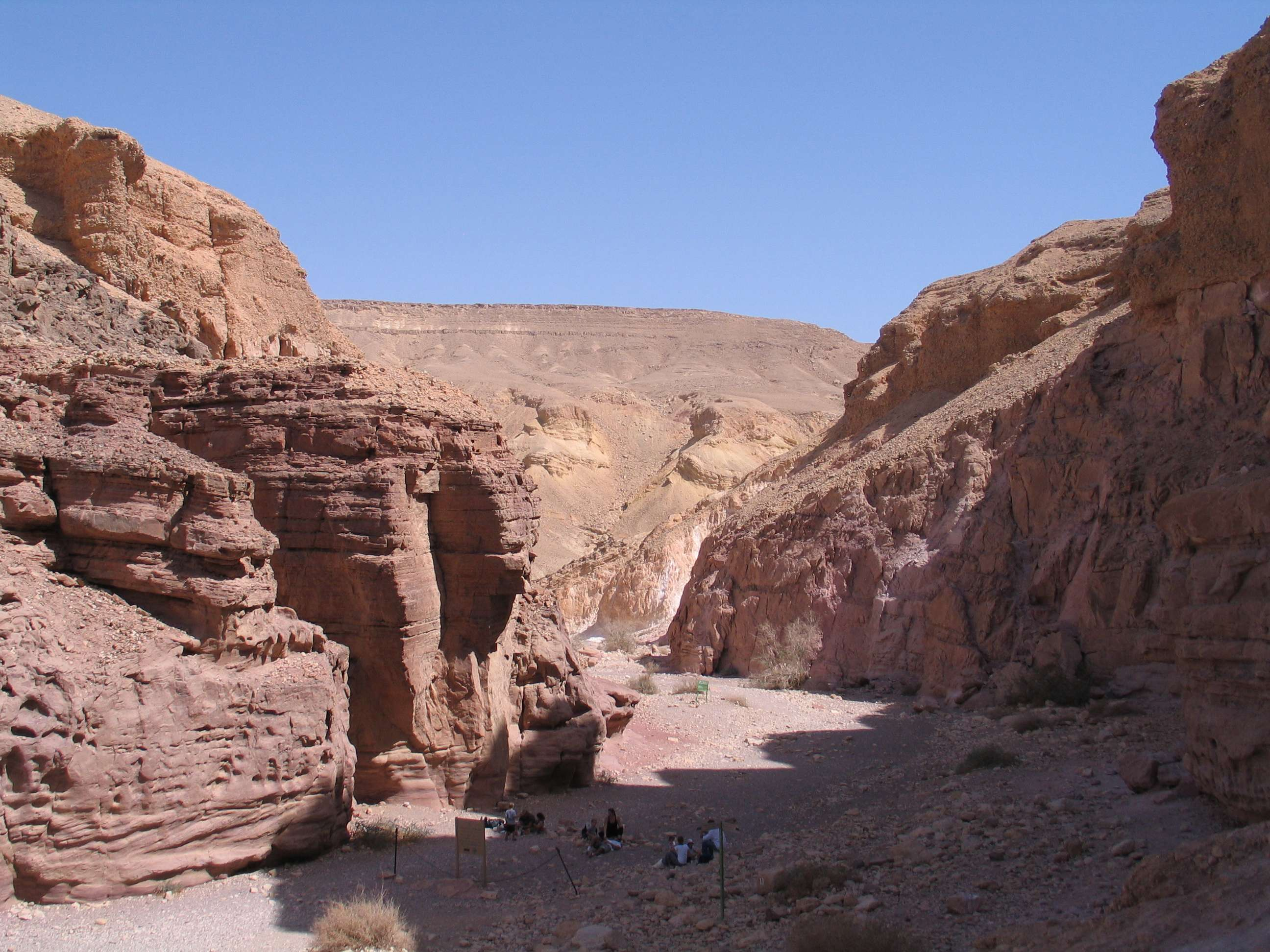 The Red Canyon, north of Eilat, Israel.